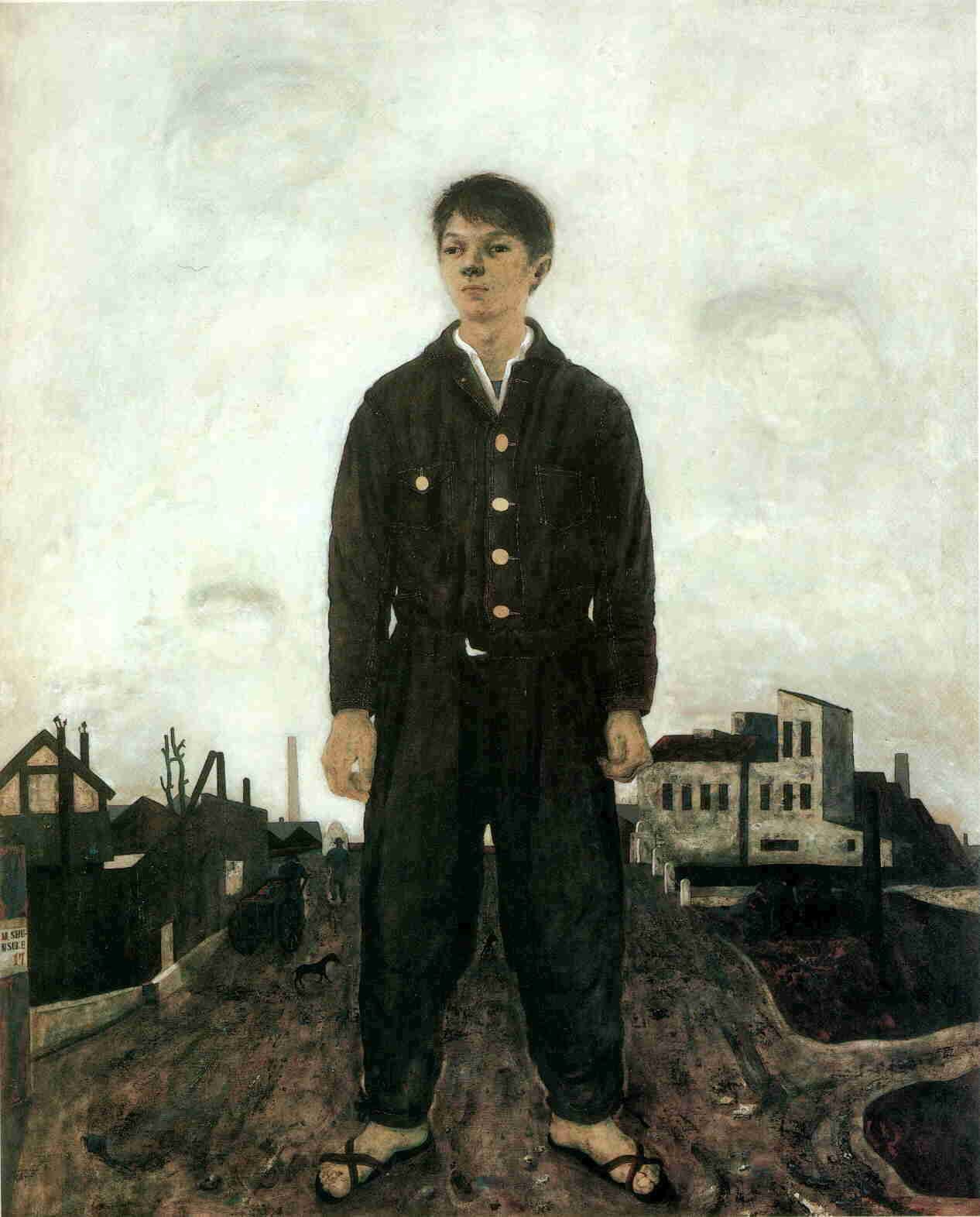 Standing Self-portrait (oil on canvas)